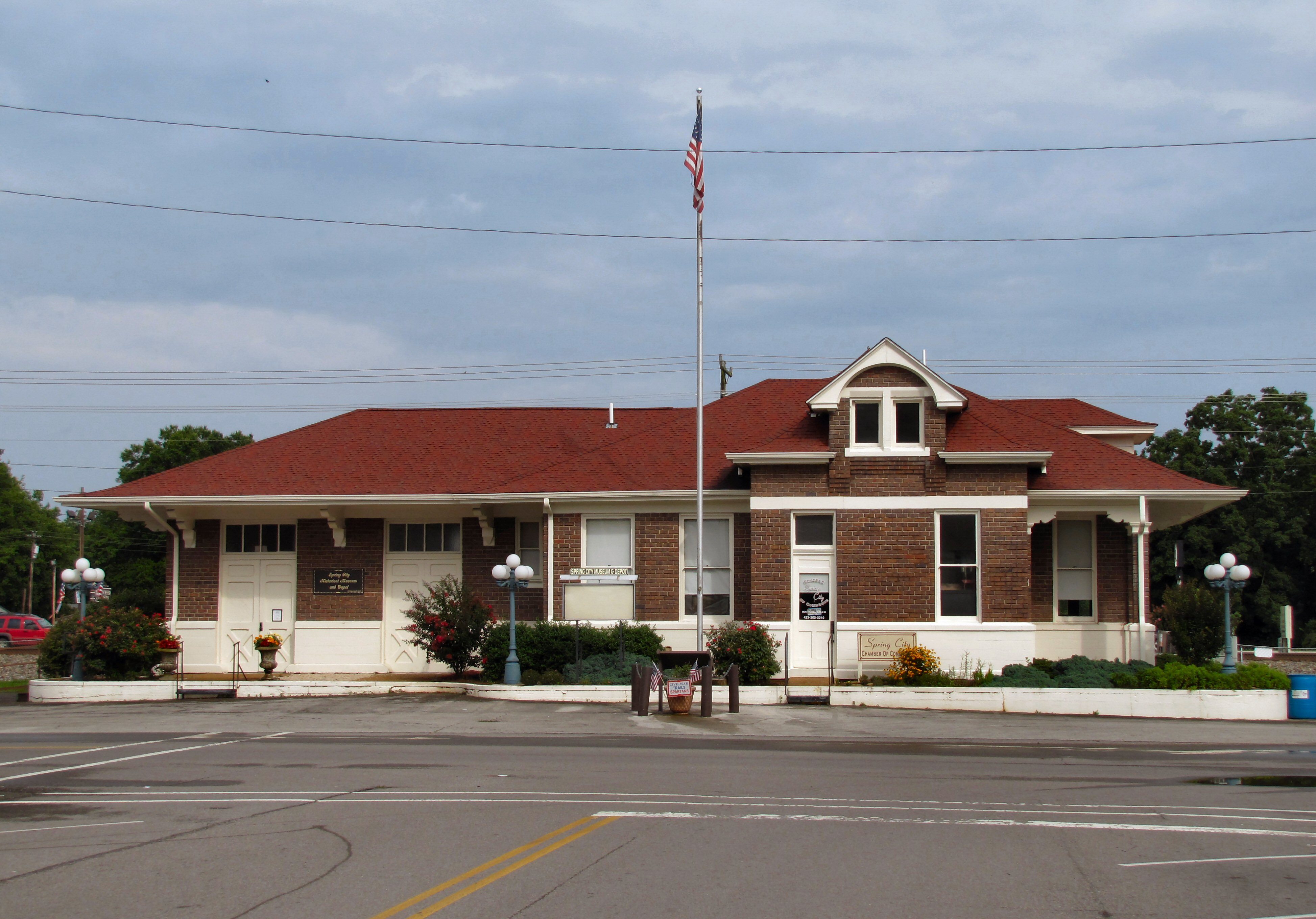 The Spring City Depot, now home to the Spring City Chamber of Commerce, in Spring City, Tennessee, United States.